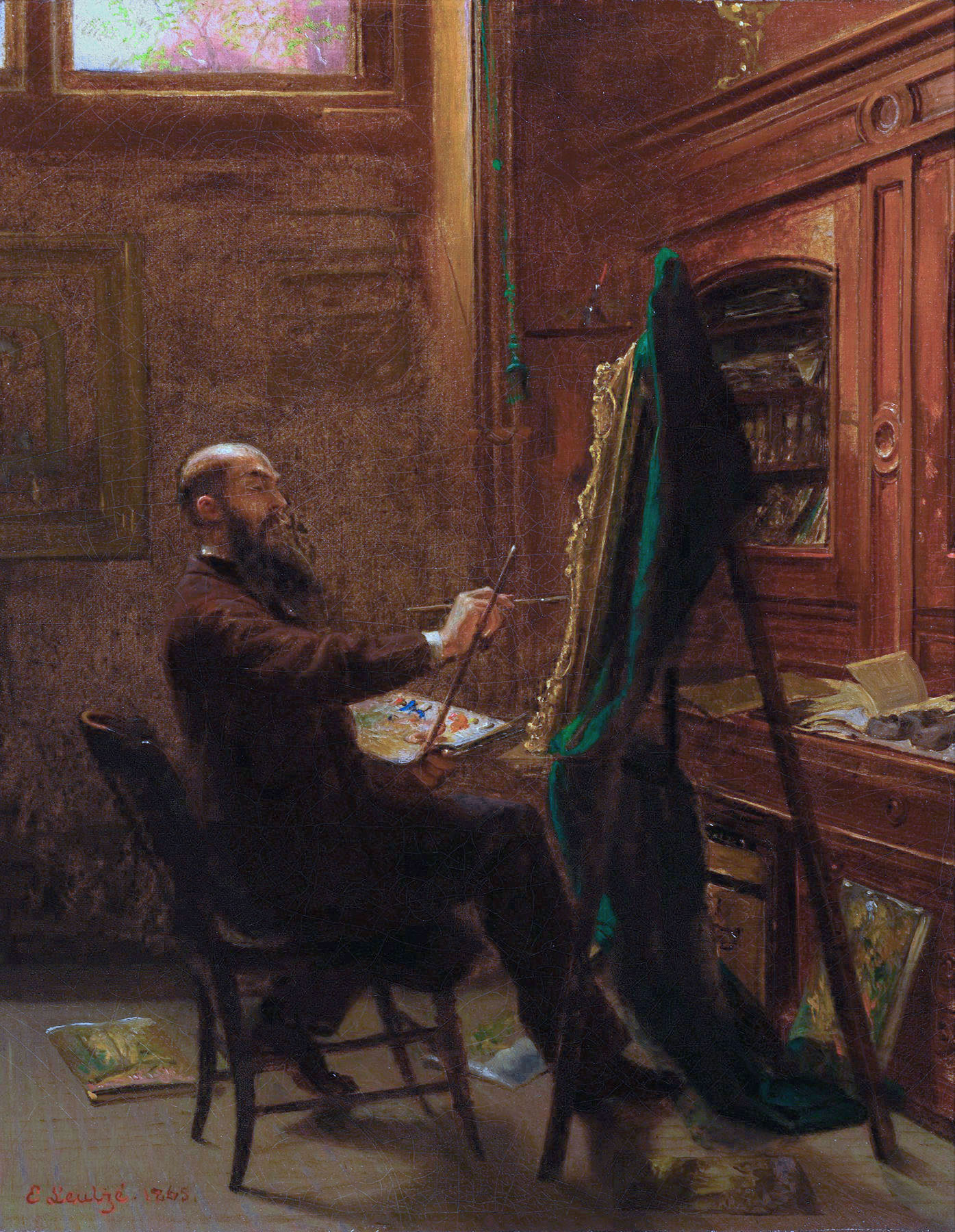 "Worthington Whittredge in His Tenth Street Studio," oil on canvas, by the German-American artist Emanuel Leutze. Courtesy of Reynolda House Museum of American Art, Winston-Salem, North Carolina